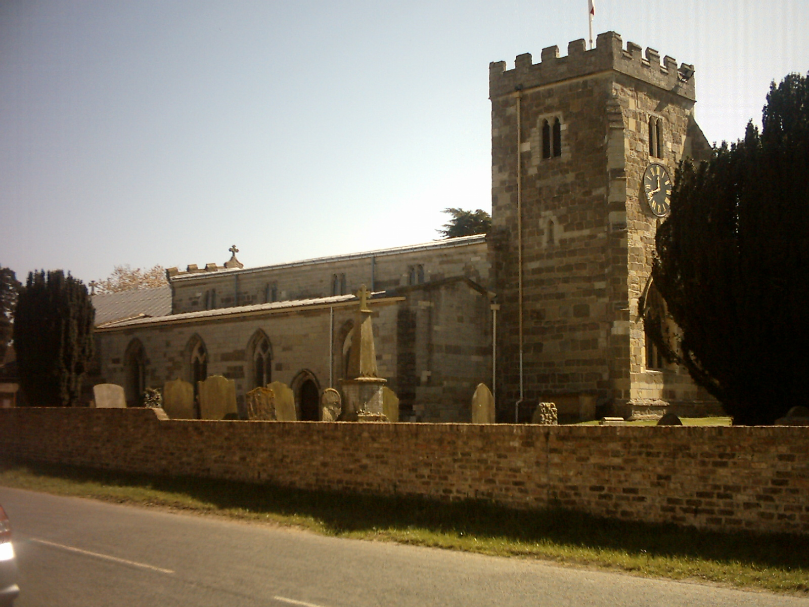 Aldborough Parish Church in Aldborough, North Yorkshire, UK. 19th April 2009